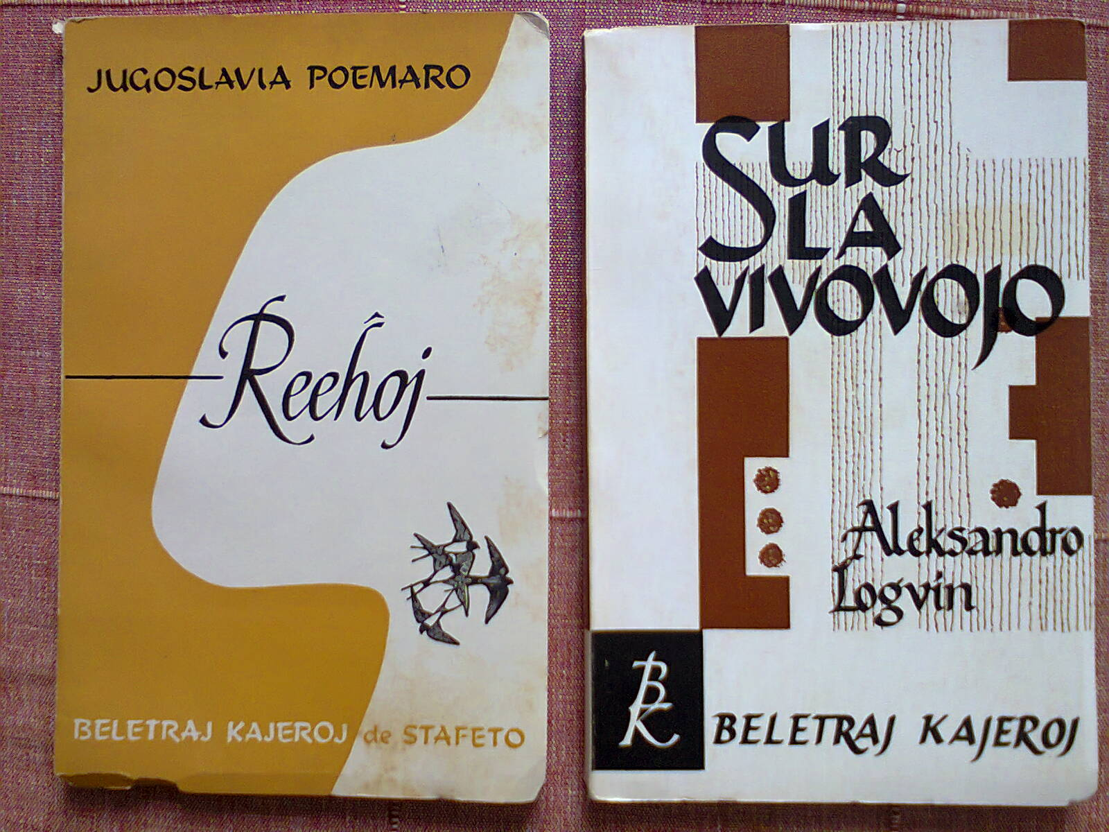 Beletraj kajeroj de Stafeto